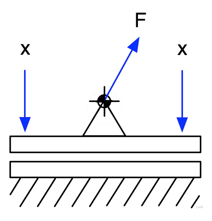 Principles drawing of a force fasten principle.